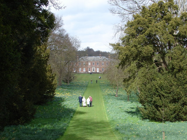 Godmersham Hall Looking through the Daffodil walk, towards the Grade II* listed Godmersham Hall, during a National Gardens open day. Jane Austin visited Godmersham Hall and the hall and park are believed to be described in some of her novels.